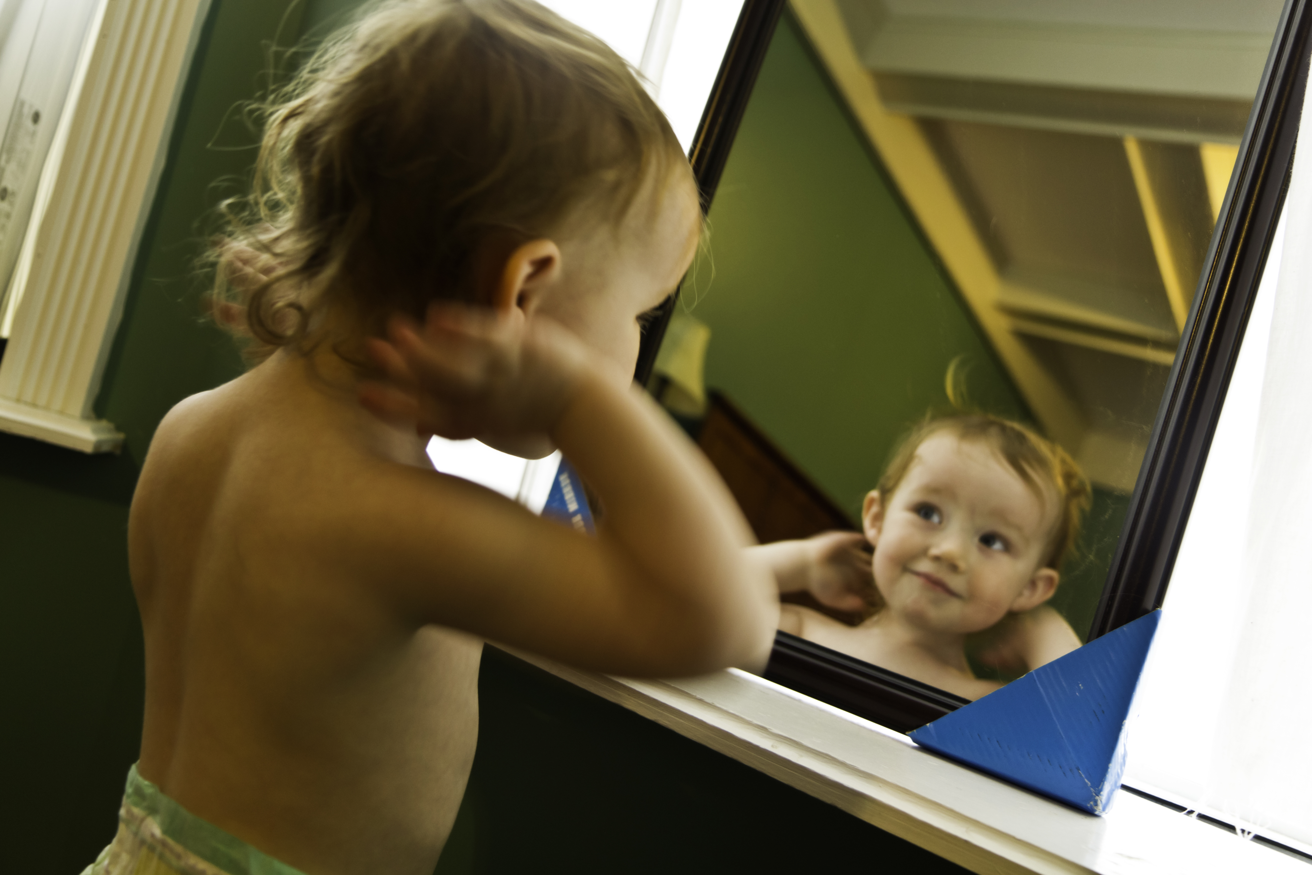 Unaware of the camera a little candidly admires her appearance a mirror.